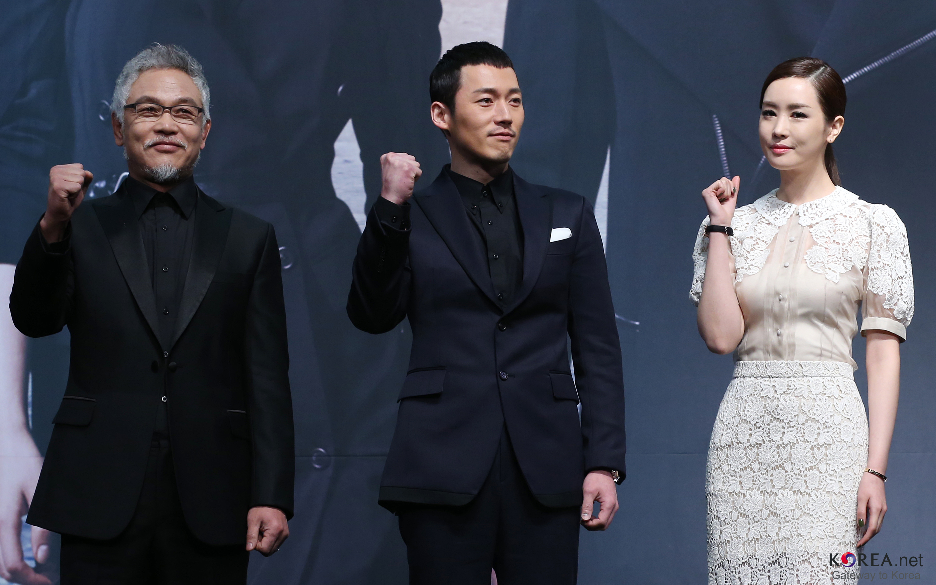 K-Drama 'IRIS 2' Press Conference. From left Kim Young Chul, Jang Hyuk, Lee Da-hae